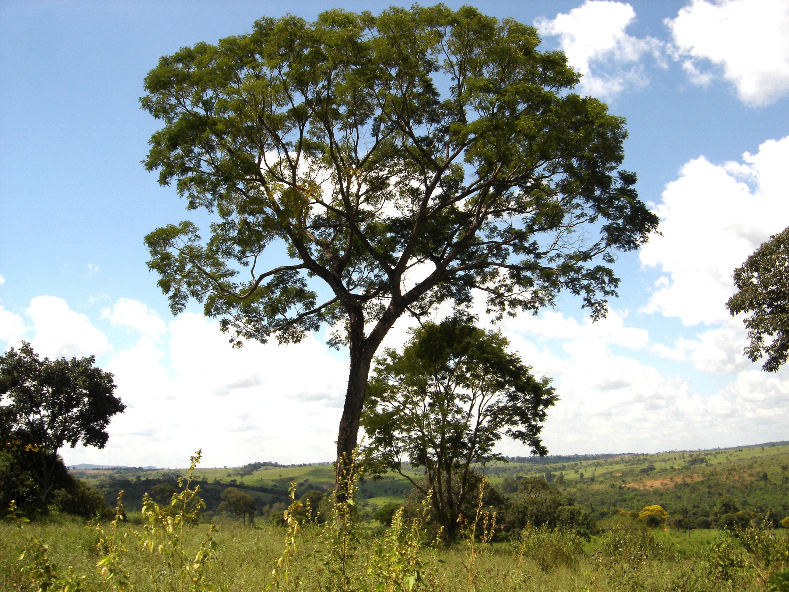 Plathymenia reticulata (syn. Plathymeria foliolosa)